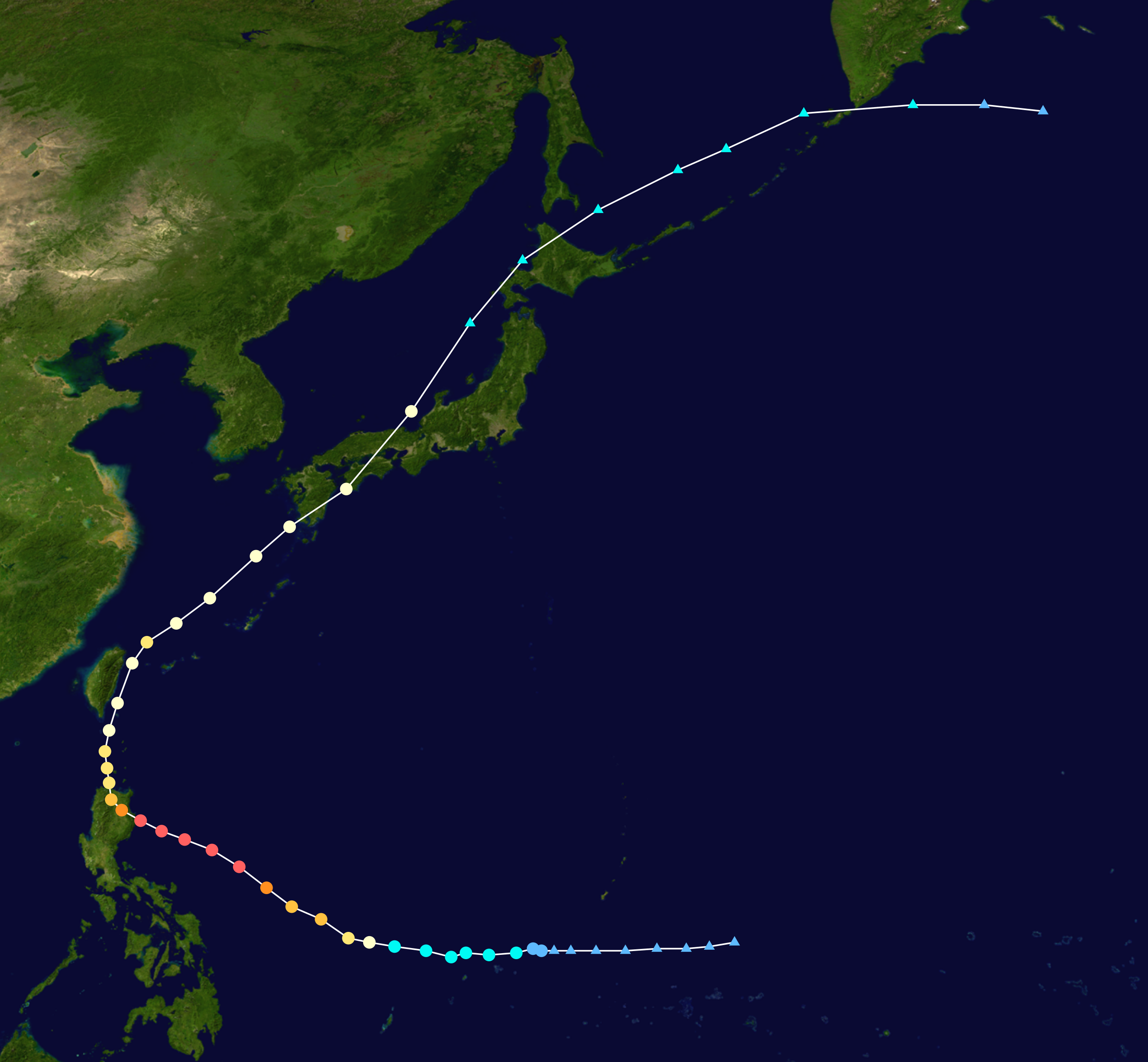 Track map of Typhoon Zeb of the 1998 Pacific typhoon season. The points show the location of the storm at 6-hour intervals. The colour represents the storm's maximum sustained wind speeds as classified in the Saffir–Simpson scale (see below), and the shape of the data points represent the nature of the storm, according to the legend below. Saffir–Simpson scale Tropical depression≤38 mph≤62 km/h Category 3111–129 mph178–208 km/h Tropical storm39–73 mph63–118 km/h Category 4130–156 mph209–251 km/h Category 174–95 mph119–153 km/h Category 5≥157 mph≥252 km/h Category 296–110 mph154–177 km/h Unknown Storm type Tropical cyclone Subtropical cyclone Extratropical cyclone / Remnant low / Tropical disturbance / Monsoon depression